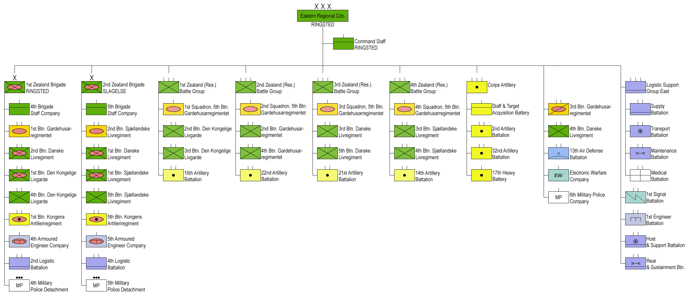 Structure of the Danish Army Eastern Regional Command in 1989